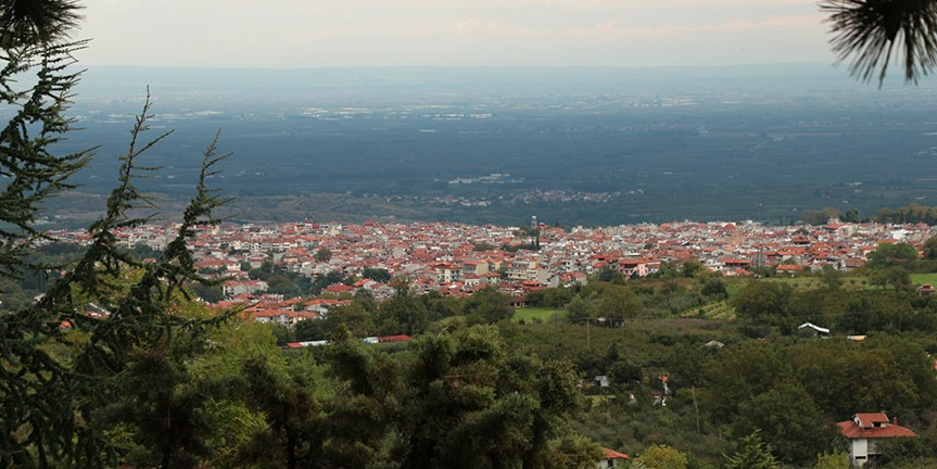 Panoramic view of Naousa